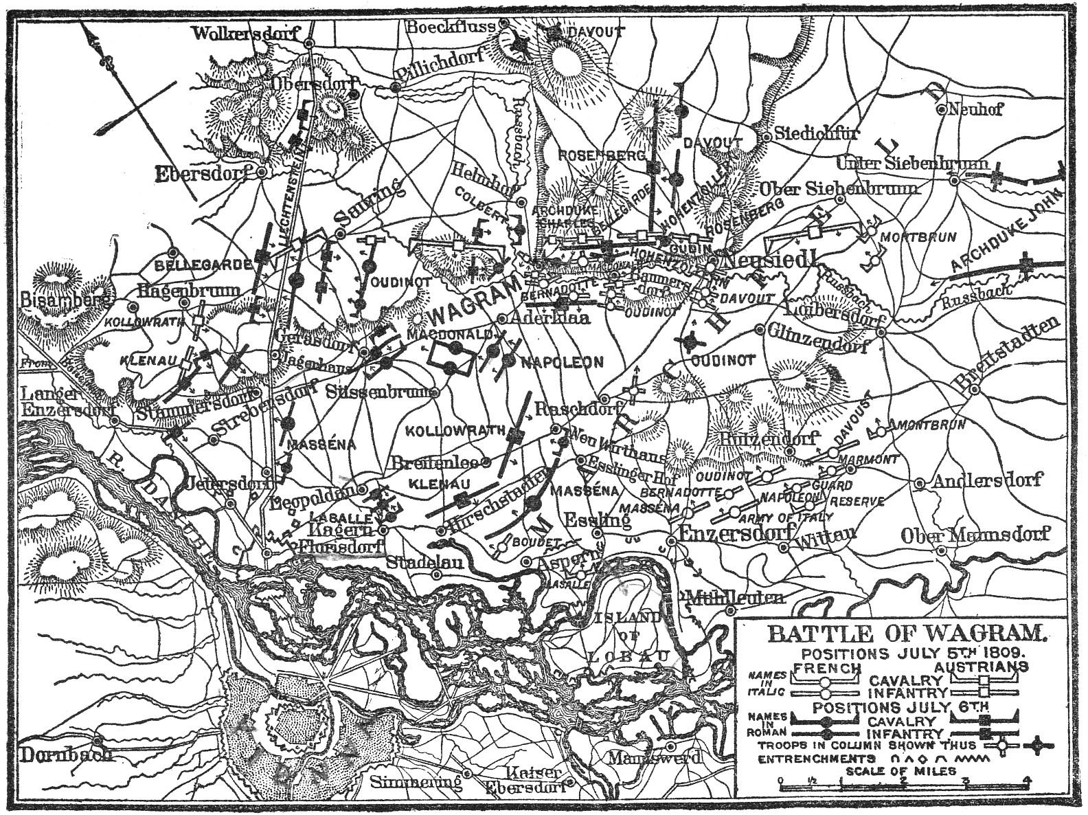 Battle of Wagram - positions on the 6th of July 1809, towards the end of the day.